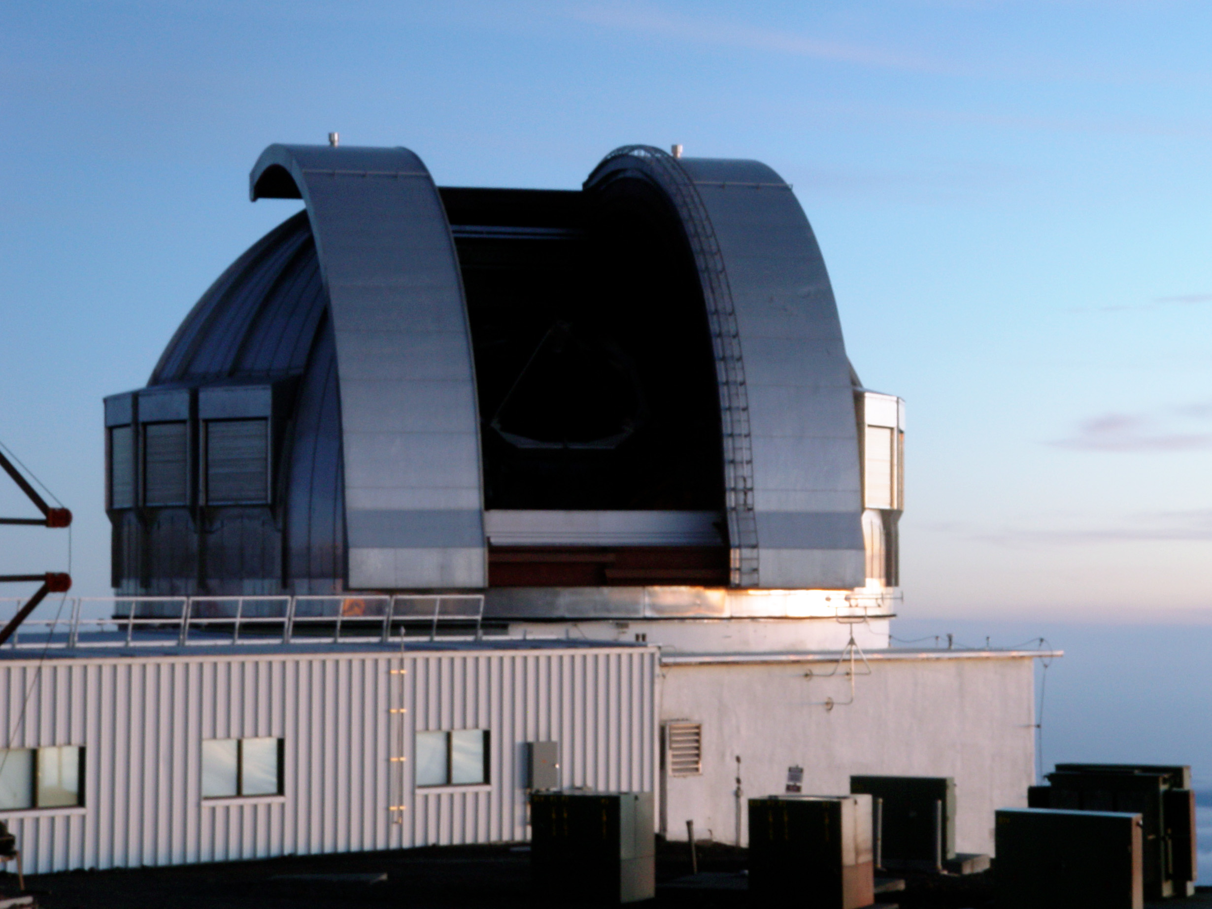 The United Kingdom Infrared Telescope at the Mauna Kea Observatory at sunset.